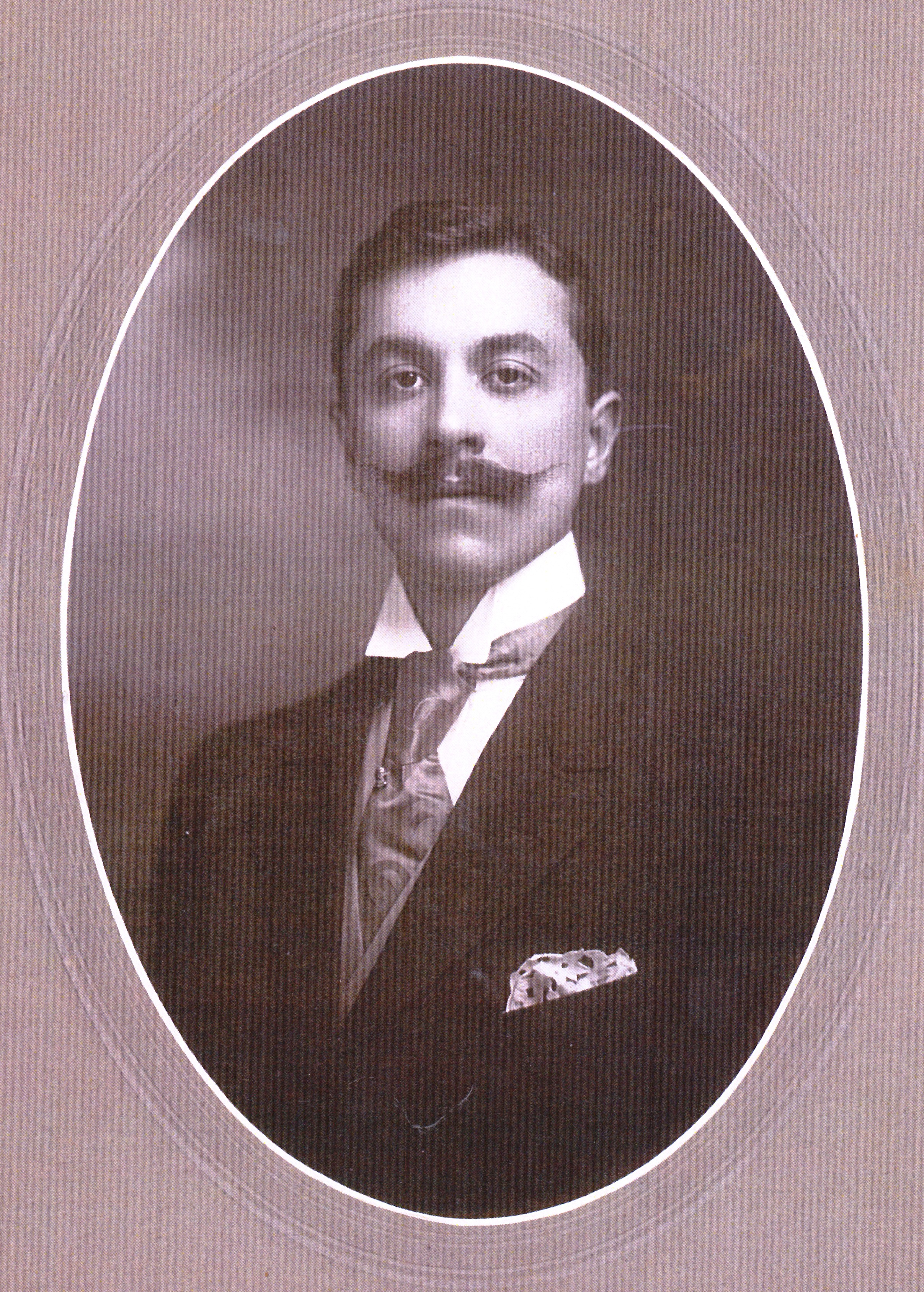 Leonard Piskorski during on of his visits in Gloversville in 1909